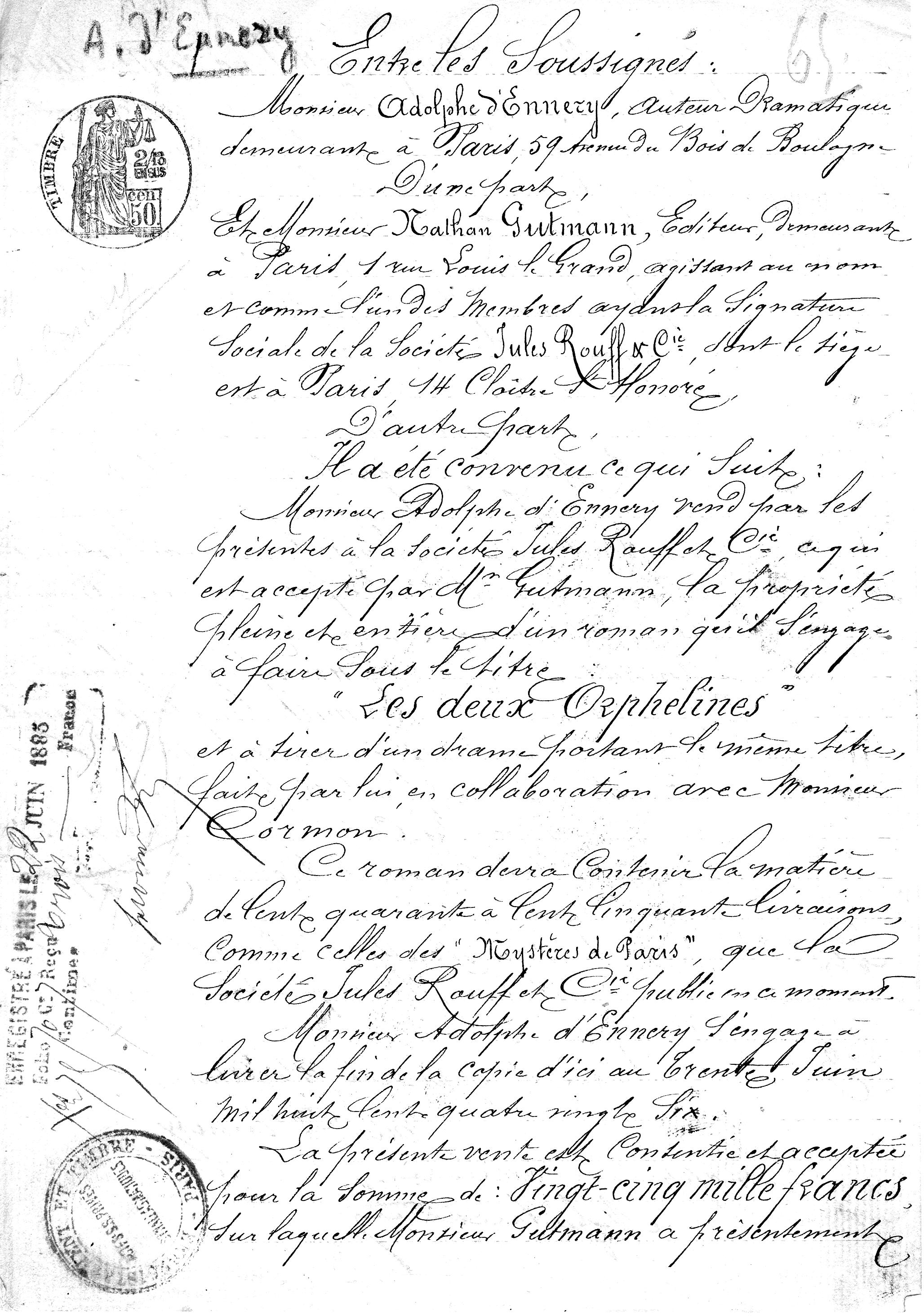 Contrat Rouff D'Ennery